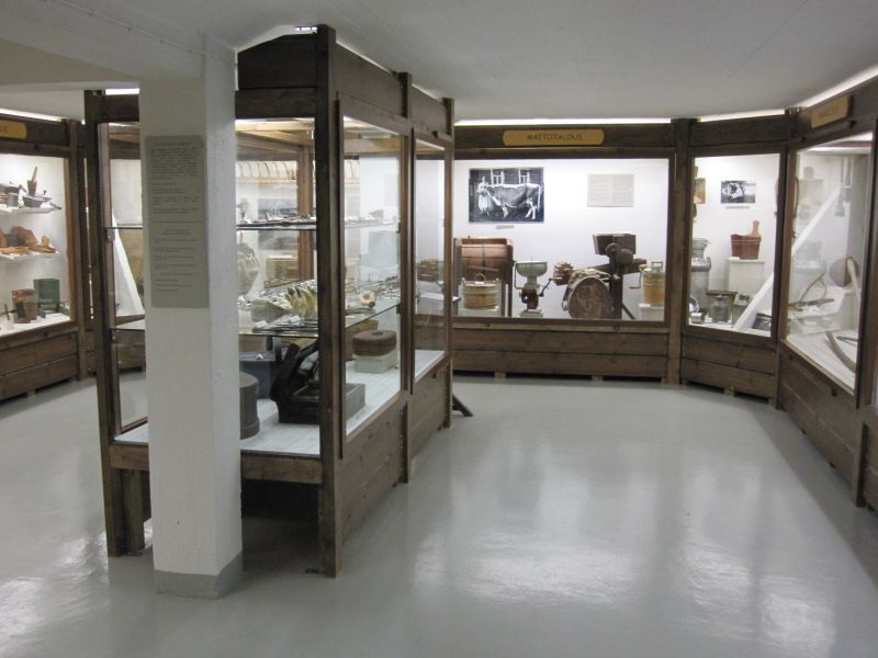 Local history museum of Upper Savonia